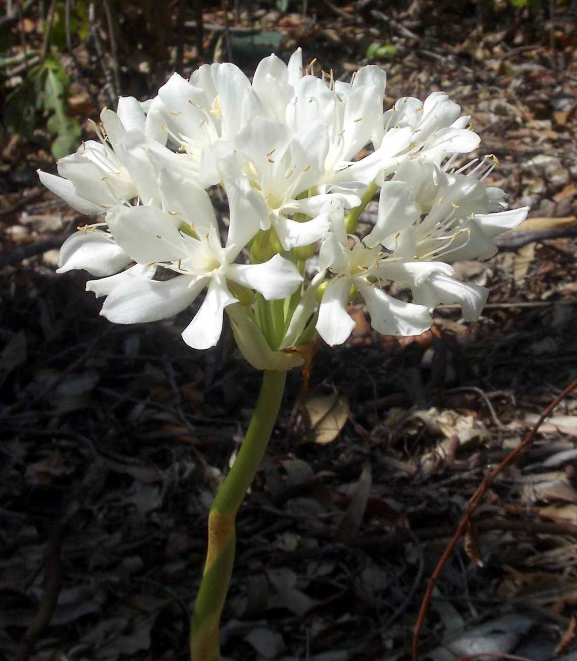 I took this photo myself. John E. Hill 04:38, 18 February 2007 (UTC)